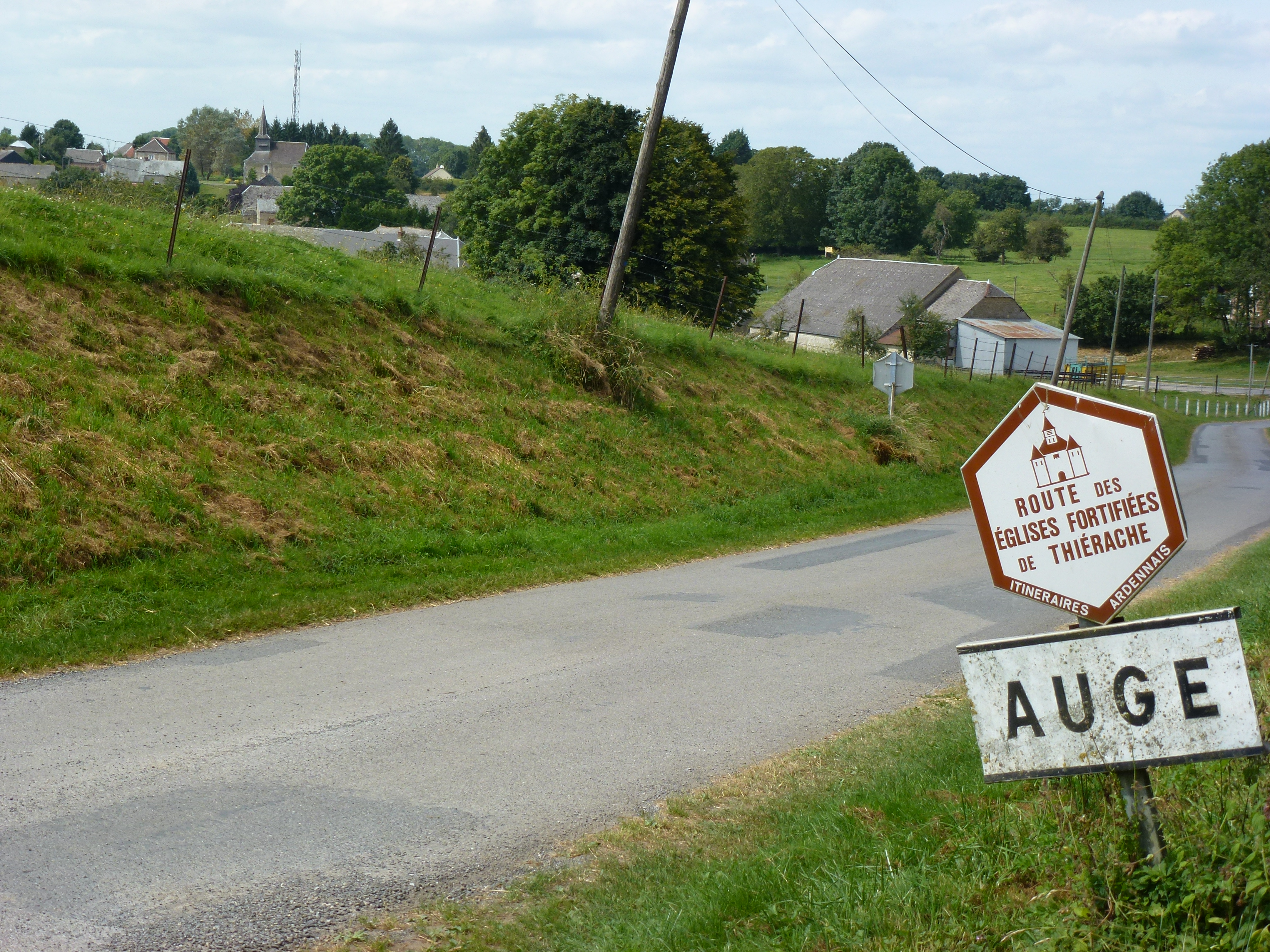 Auge (Ardennes) city limit sign